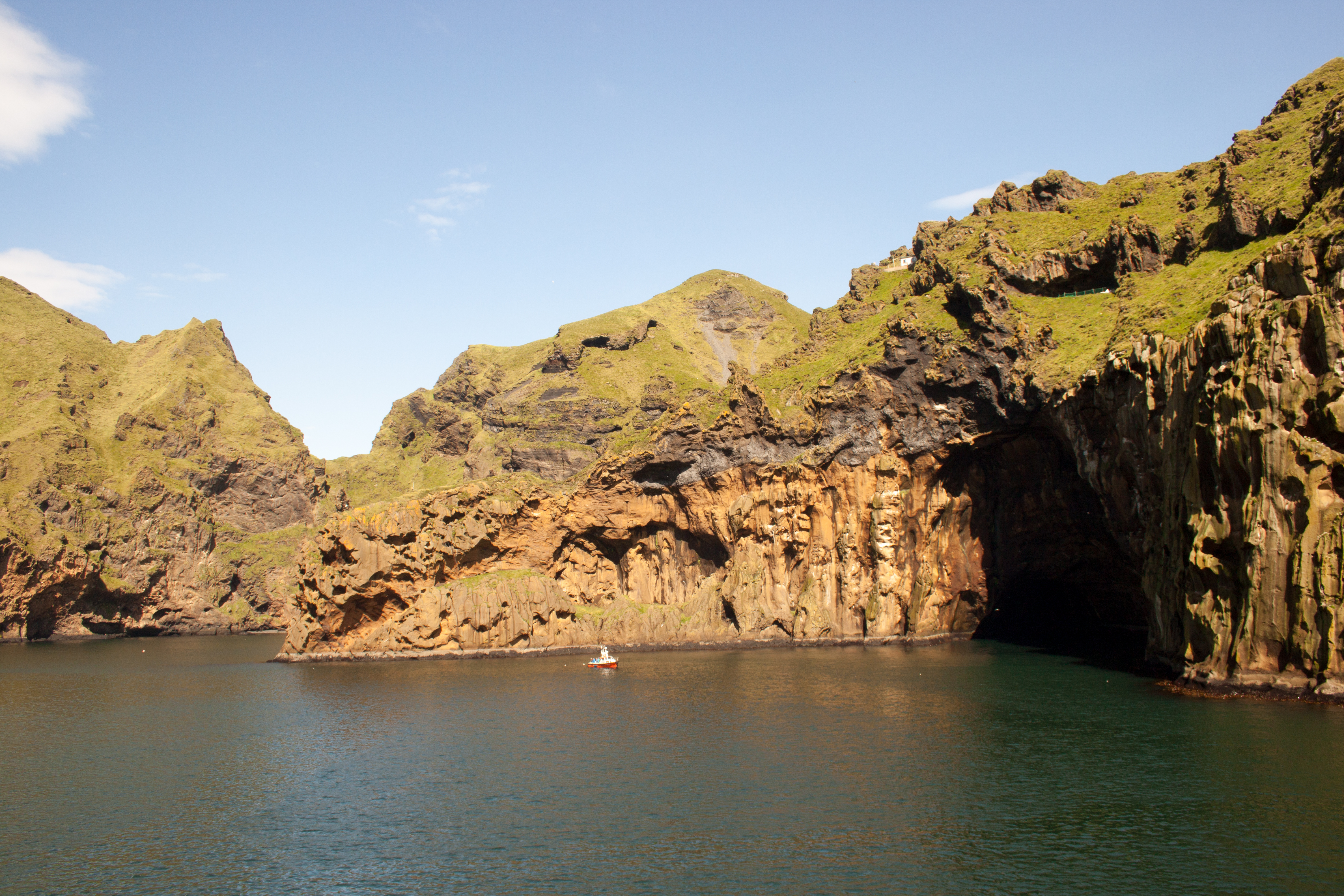 Heimaey, entrance to the harbour